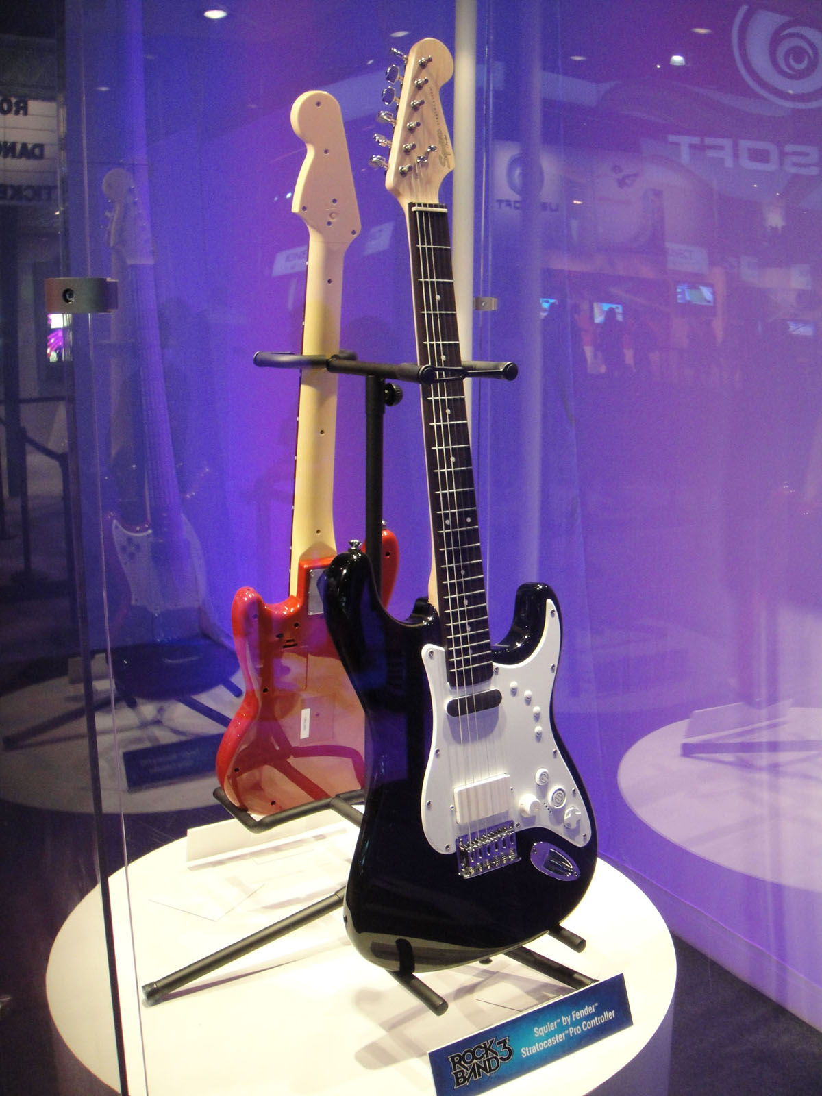 Squier® by Fender® Stratocaster® Pro Controller for Rock Band 3 @ E3 Expo 2010 〝Fender®, Harmonix & MTV Games Partner To Introduce Revolutionary New Rock Band 3 Squier® By Fender Stratocaster® Guitar Controller”, press release, June 11, 2010, Harmonix Music Systems, Inc